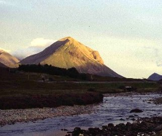 Marsco from Sligachan, Isle of Skye Marsco, just catching the last rays of the evening sun, is seen from the popular Sligachan camp site.